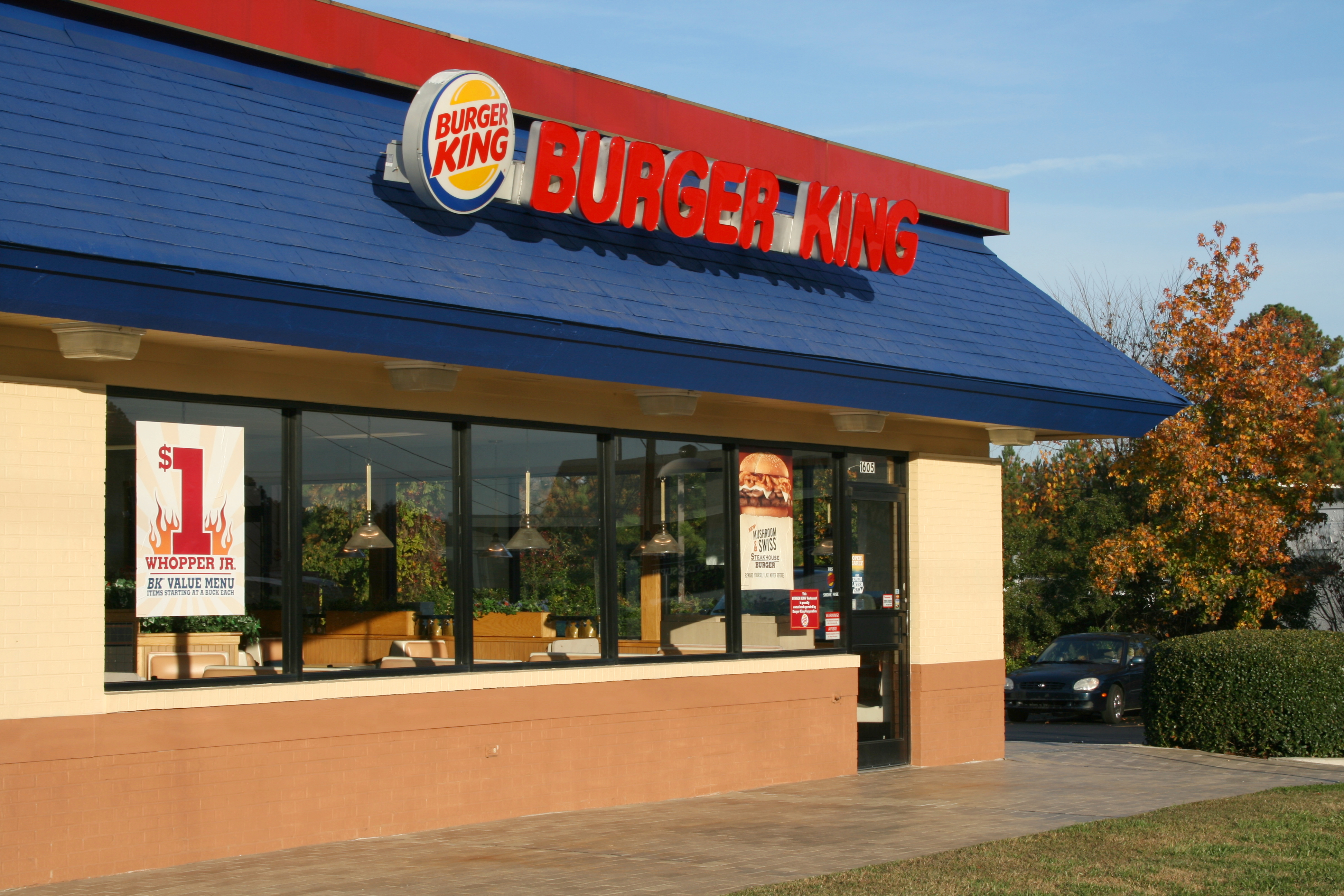 Burger King restaurant at 1605 US Highway 70 East in Durham, North Carolina.